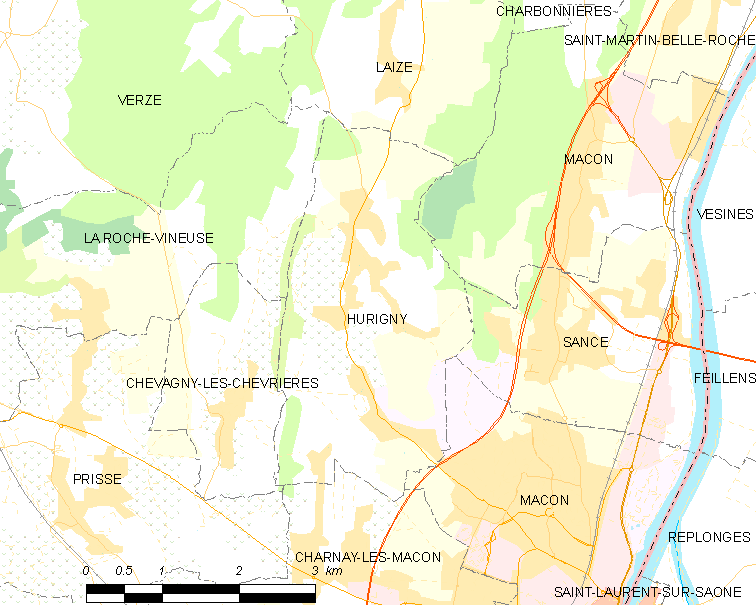 Map of French municipality